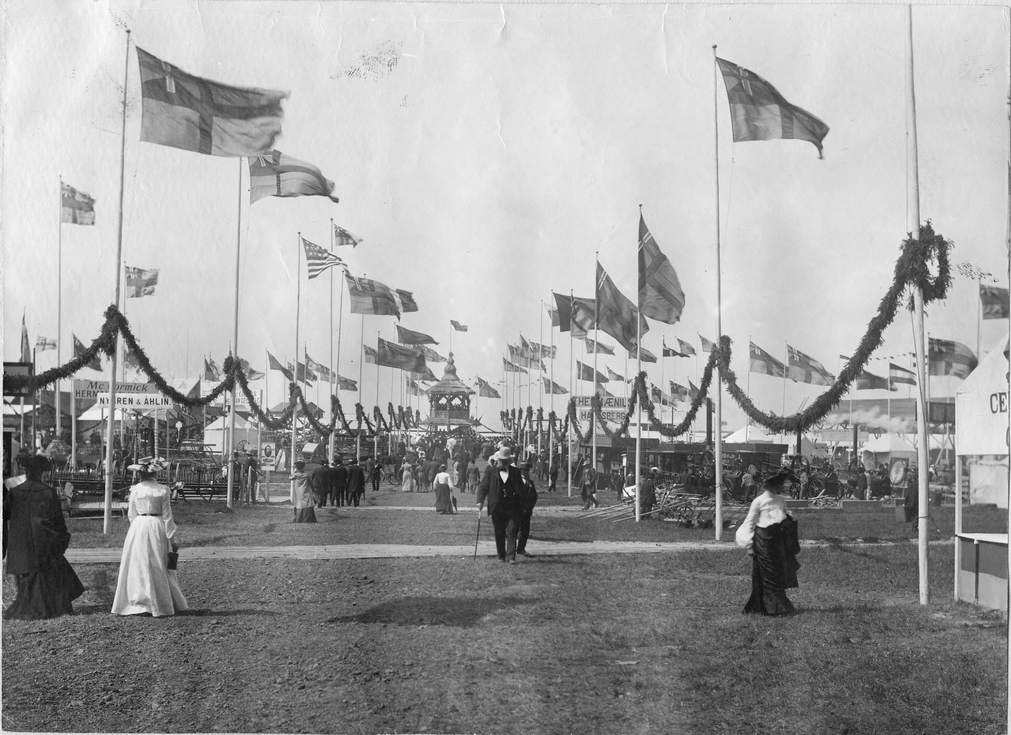 Overview of the agricultural exhibition in Karlstad 1903.